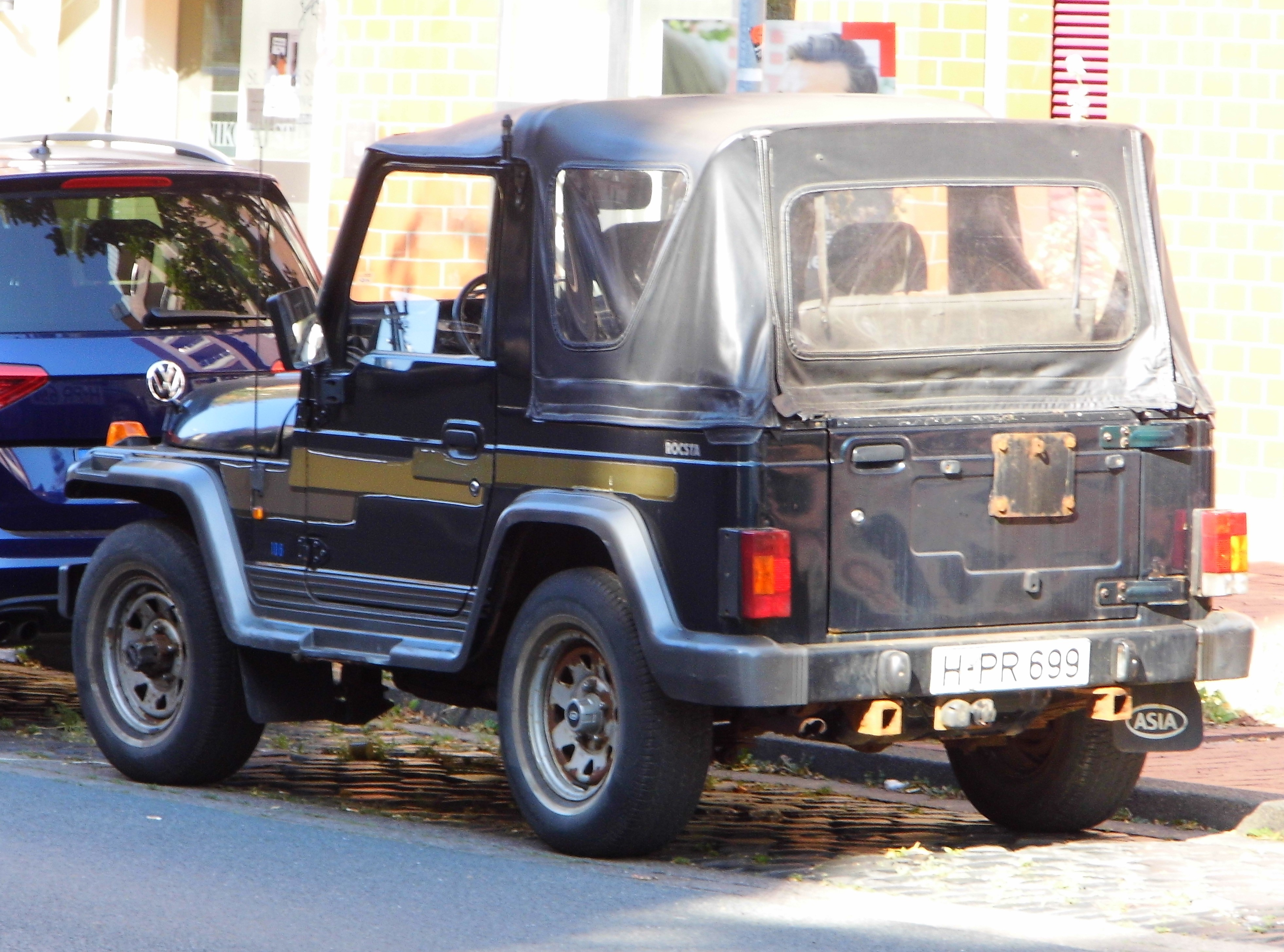 An Asia Rocsta rear in Hanover, 2016